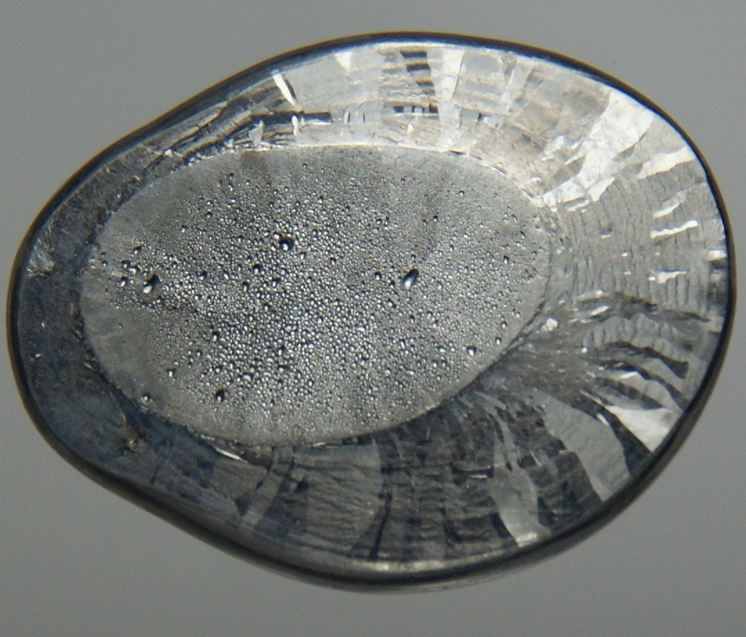 Ultrapure lead bead from two sides. Original size in cm: 1.5 x 2